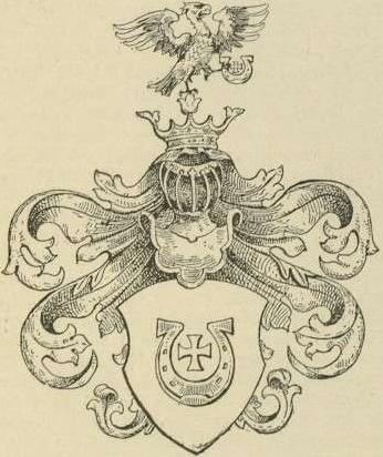 Coat of Arms Jastrzębiec from reprint of "Nomenclator" by Wojciech Wiiuk Kojałowicz, orginal work from 1658, reprint from 1905 (another version)